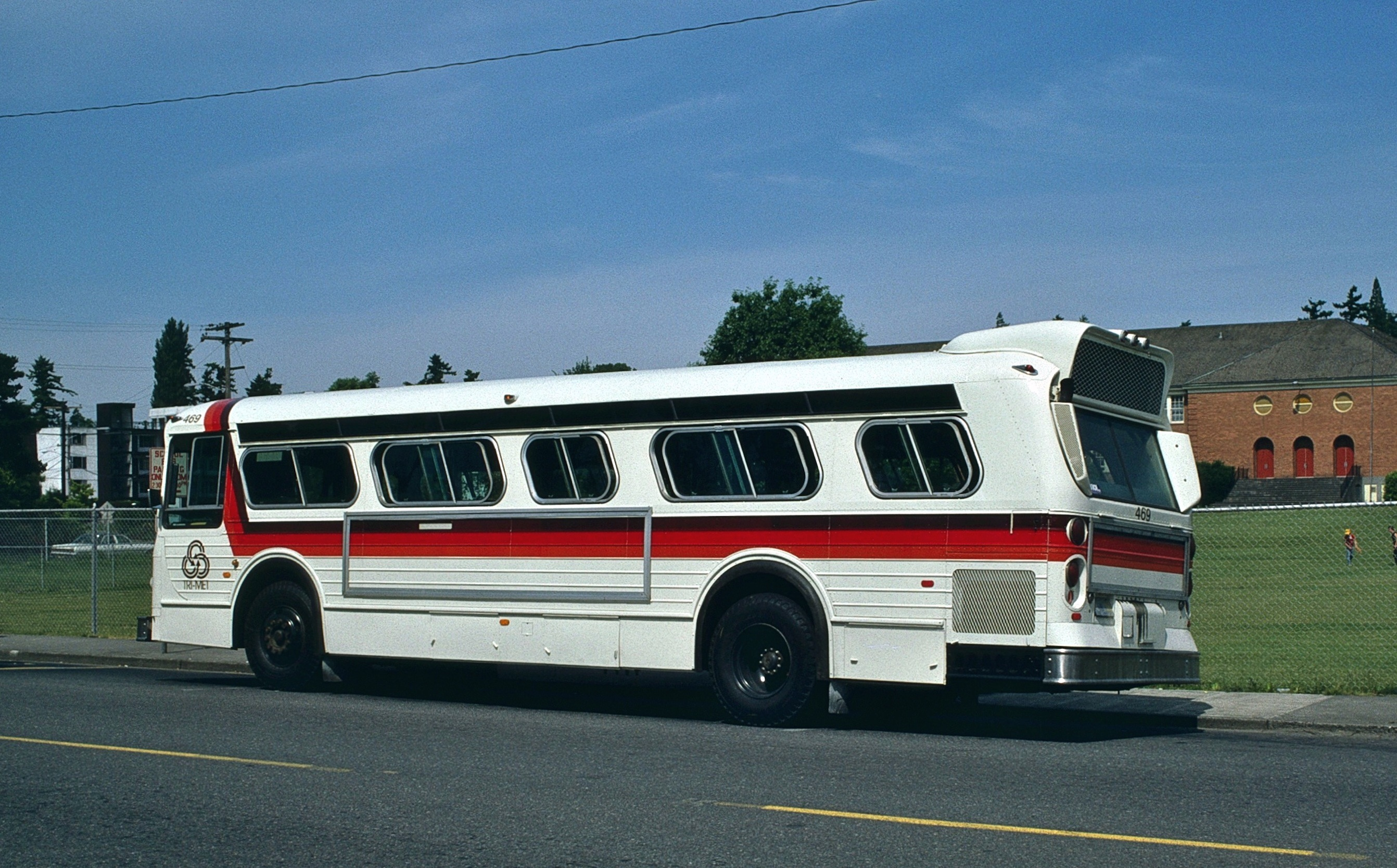 Side and rear view of a Flxible "New Look" bus in 1984. This is TriMet bus 469 (ex-628), a 35-foot-long, 96-inch-wide Flxible built in 1971. Originally numbered in the series 601–650, it was among 31 buses in that group to be overhauled in 1983–84 and renumbered into the series 455–485 for continued use. The work included repainting into a new paint scheme the agency adopted in fall 1980. The last active buses in this series were retired in 1989. Bus 469 is shown laying over on the east side of 21st Avenue at Jackson Street, at TriMet's Milwaukie Transit Center, in downtown Milwaukie, Oregon.